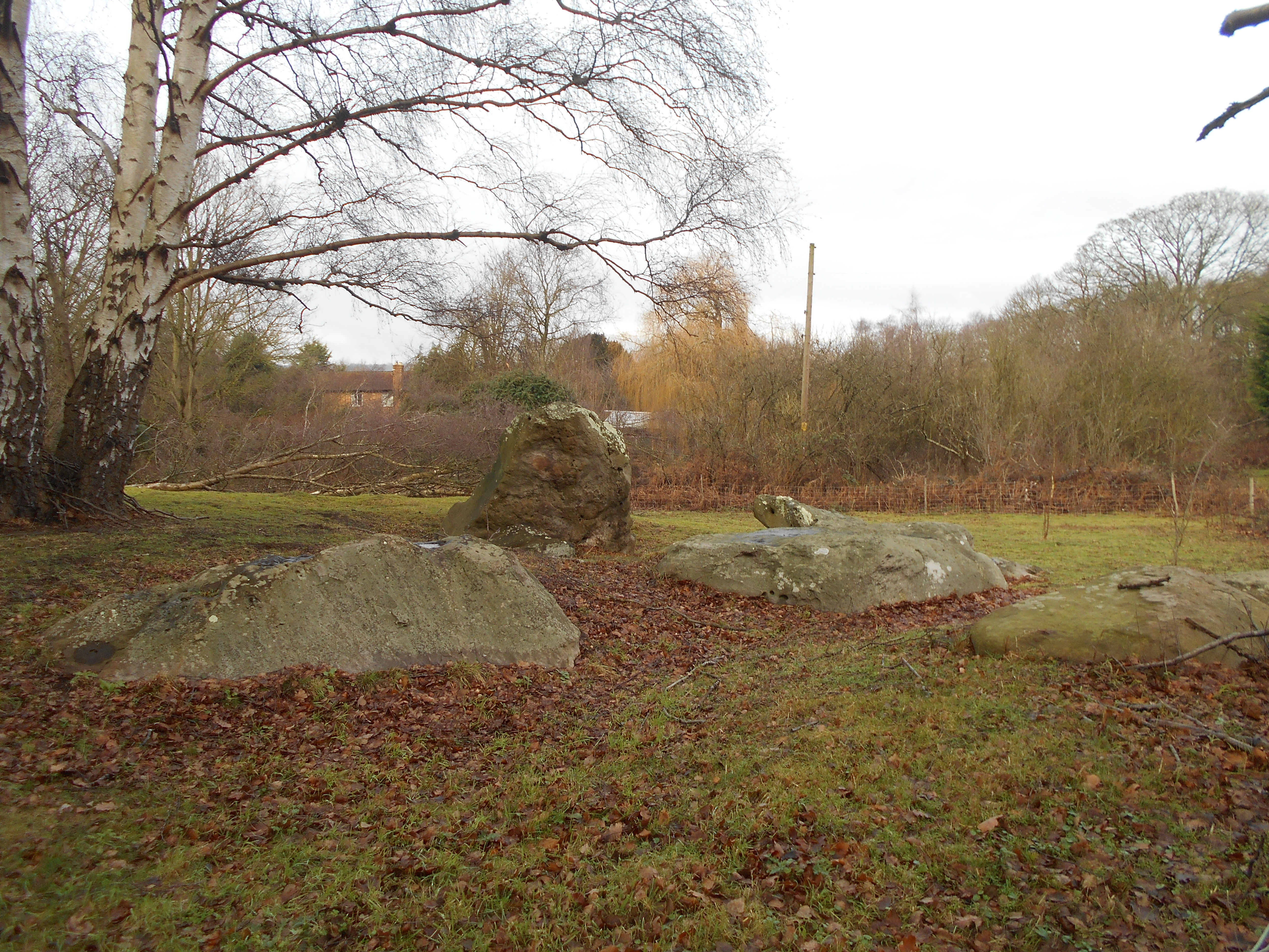 Addington Long Barrow, one of the Medway Megaliths, in the village of Addington, Kent. The barrow is cut in half by a modern road. This photo is of the portion to the north of the road, which incorporates most of the sarstens.